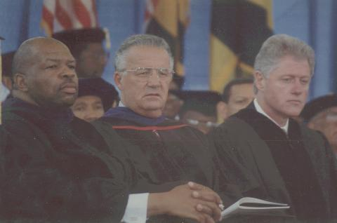 President Bill Clinton, Senator Paul Sarbanes (MD), and Congressman Elijah Cummings attend the Morgan State University graduation. (May, 1997)